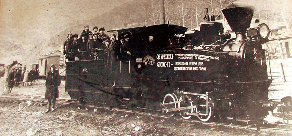 Steam locomotive N5 type 0-6-0 'O&K', UZD Dalnegorsk - Rudnaya Pristan, Russia